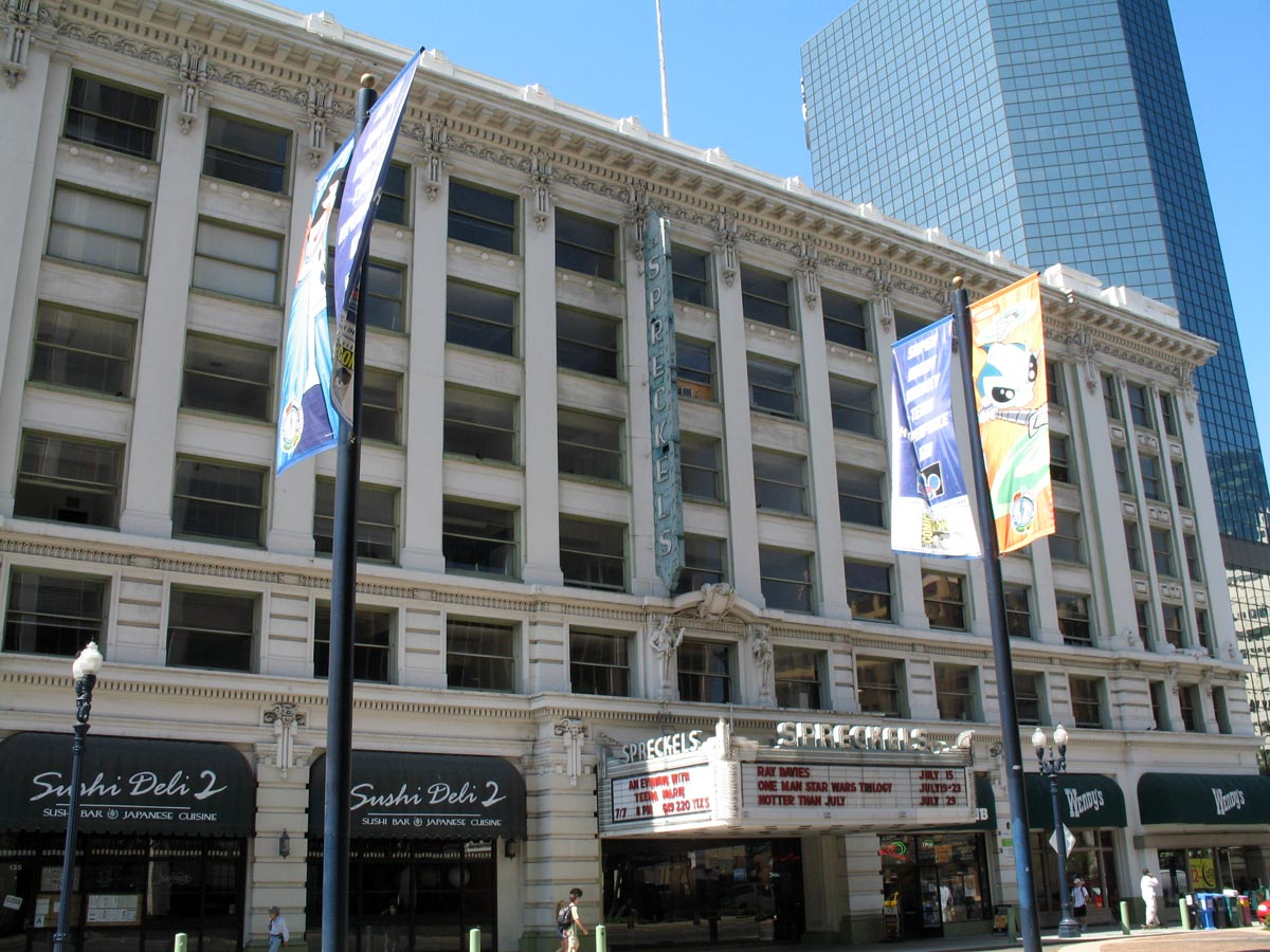 Photo of Spreckels Theater Building, San Diego, California.